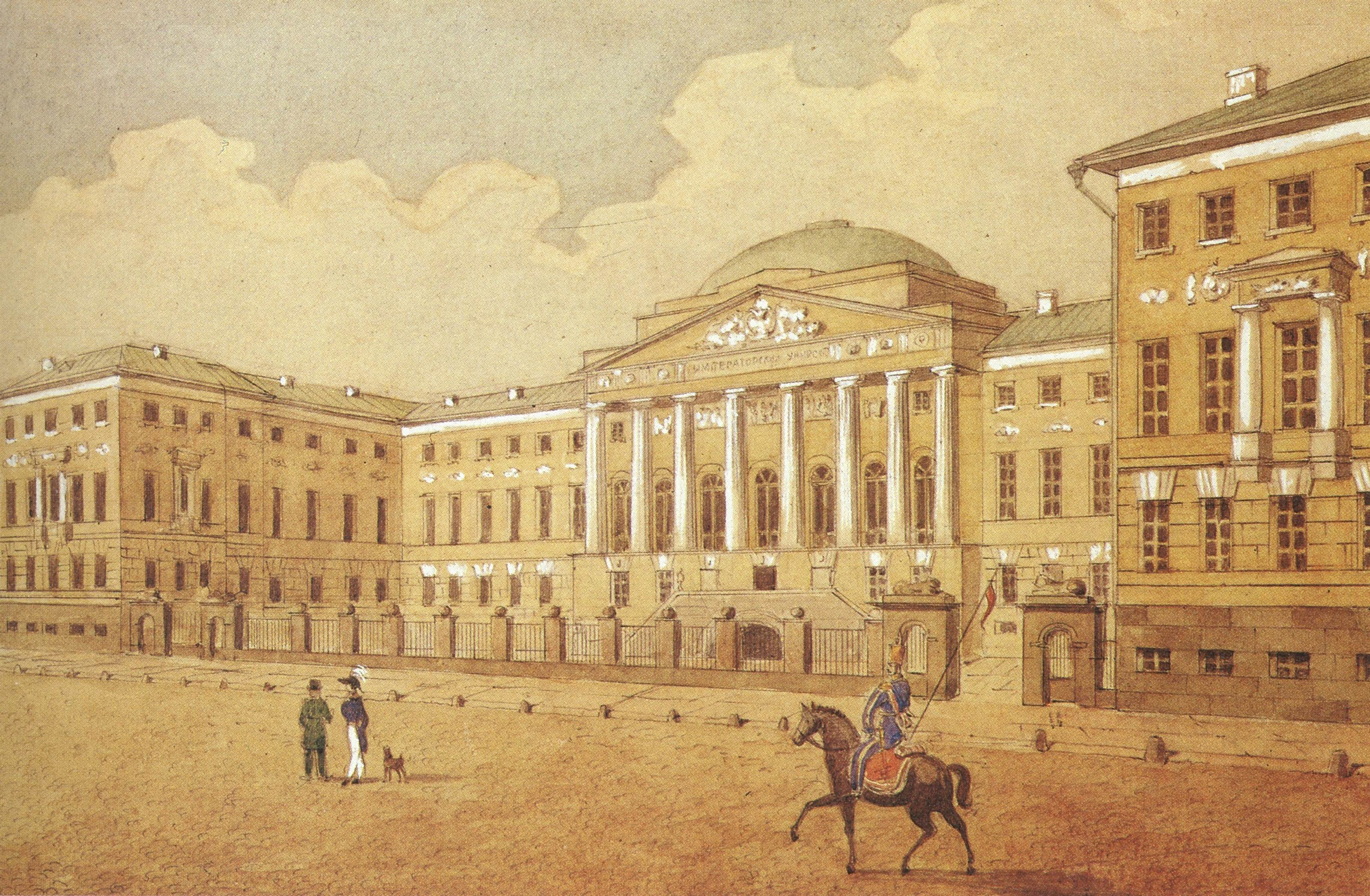 Moscow University